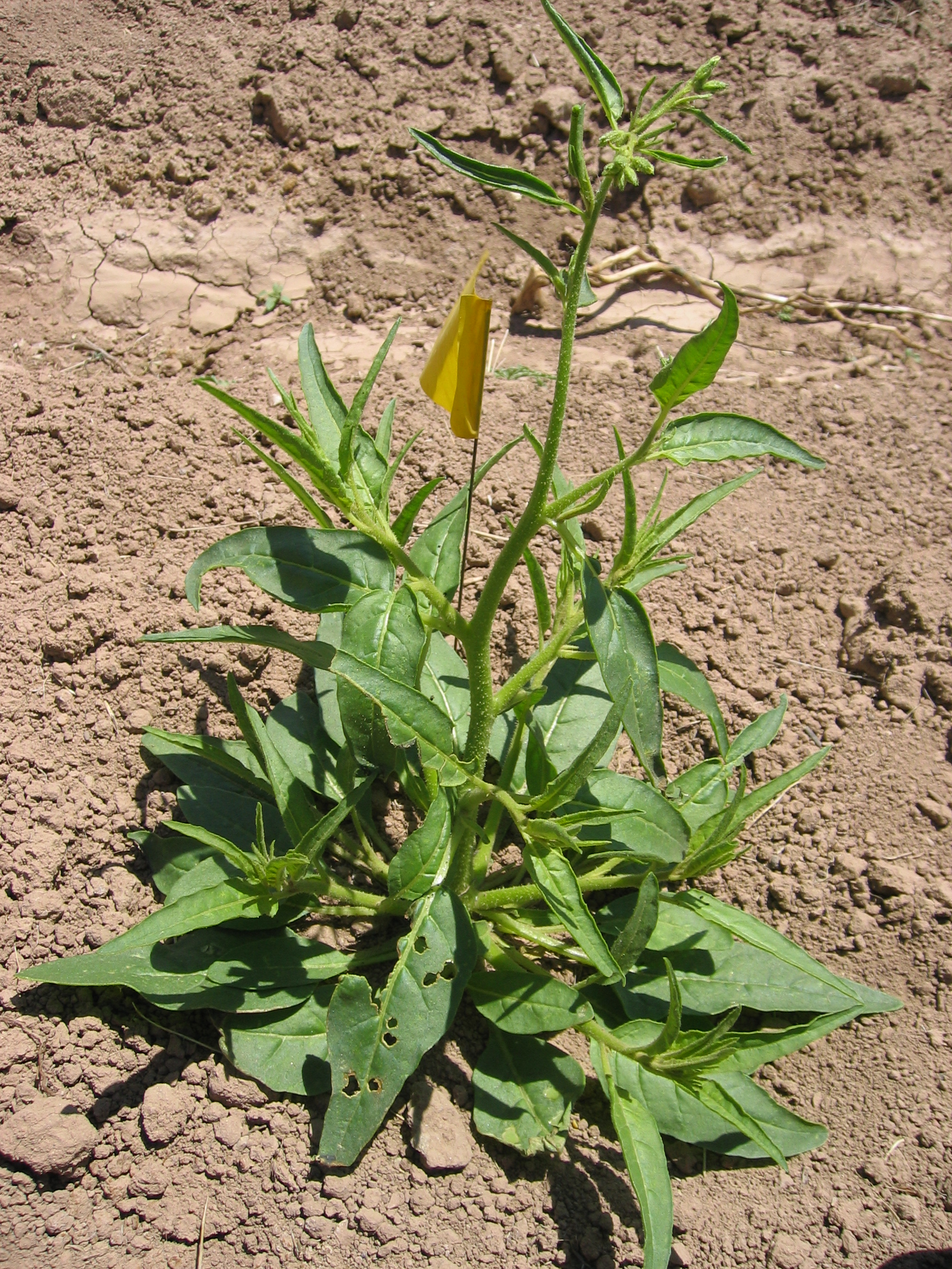 Coyote tobacco (Nicotiana attenuata) at a field site in Utah.